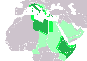 Ambition of Fascist Italy